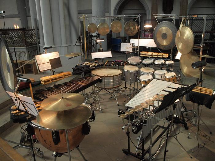 Percussion instruments by Armin Sommer (Duo Carillon) at a 2014 concert.